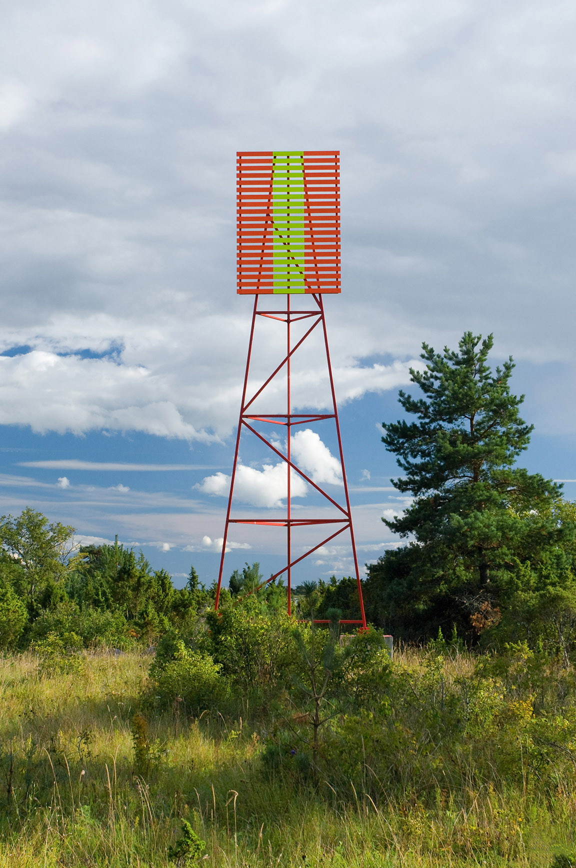 Ramsi rear daymark